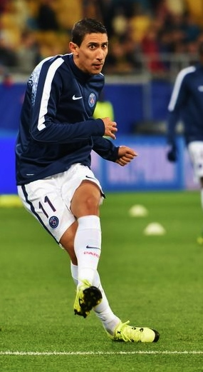 Ángel Di María